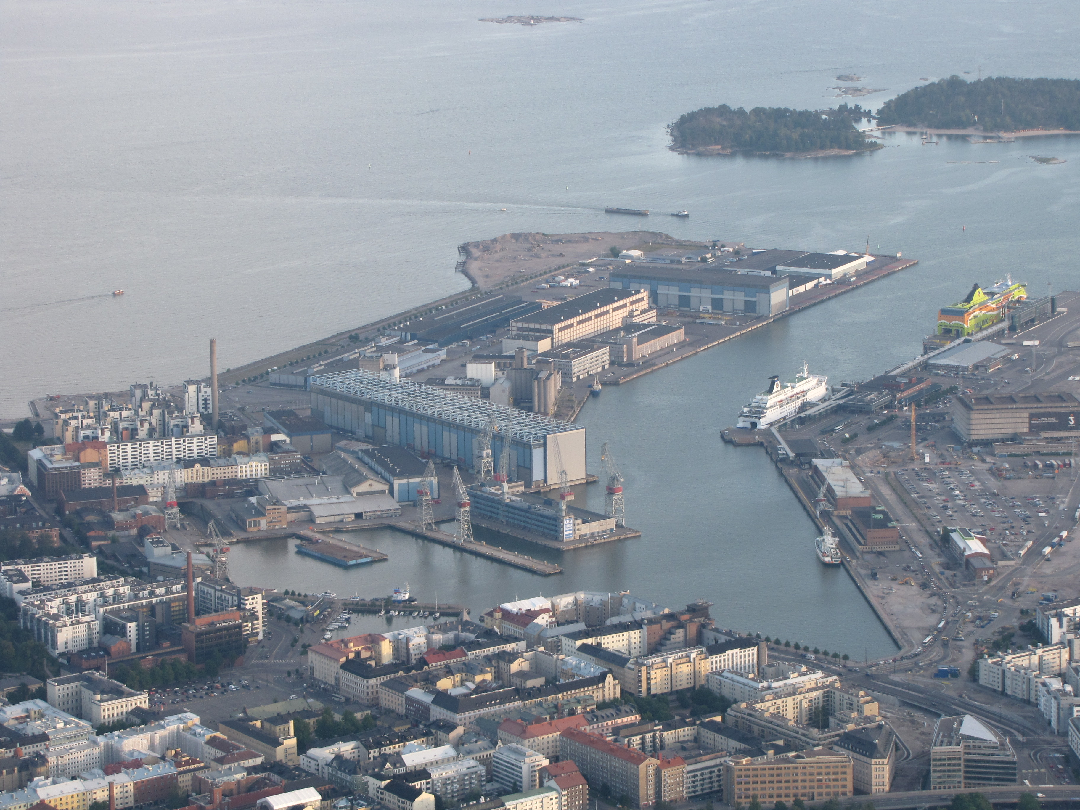 Munkkisaari and Hietalahti bay photographed from a hot air balloon.